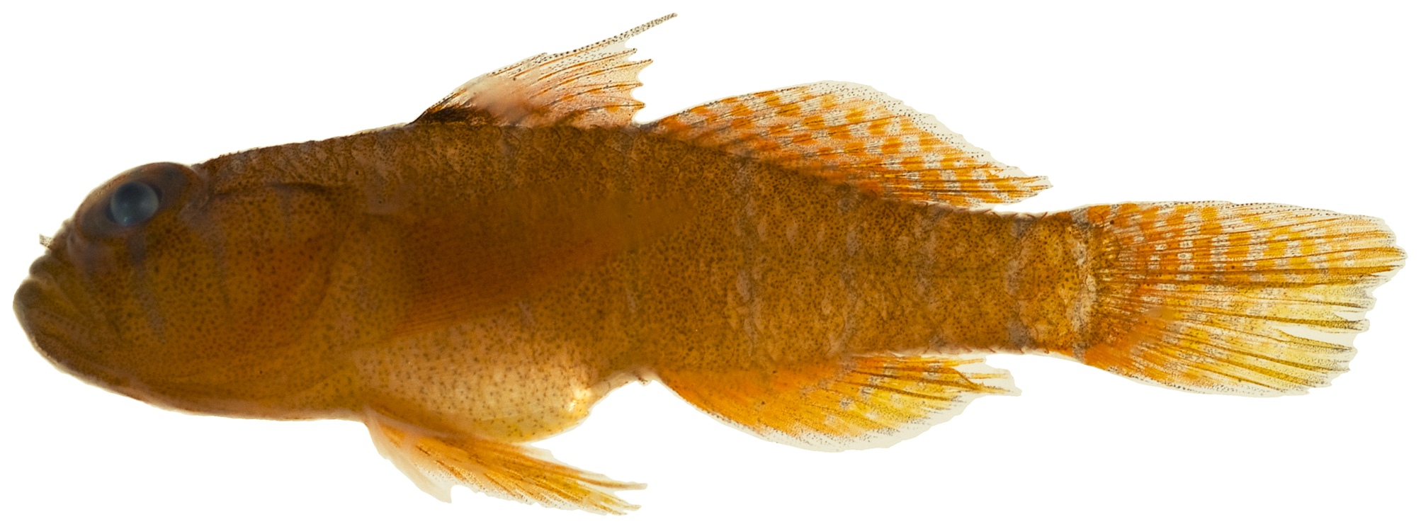 Priolepis hipoliti (Metzelaar, 1922)—rusty goby, 18.7 mm SL, adult male. Photo by JT Williams.